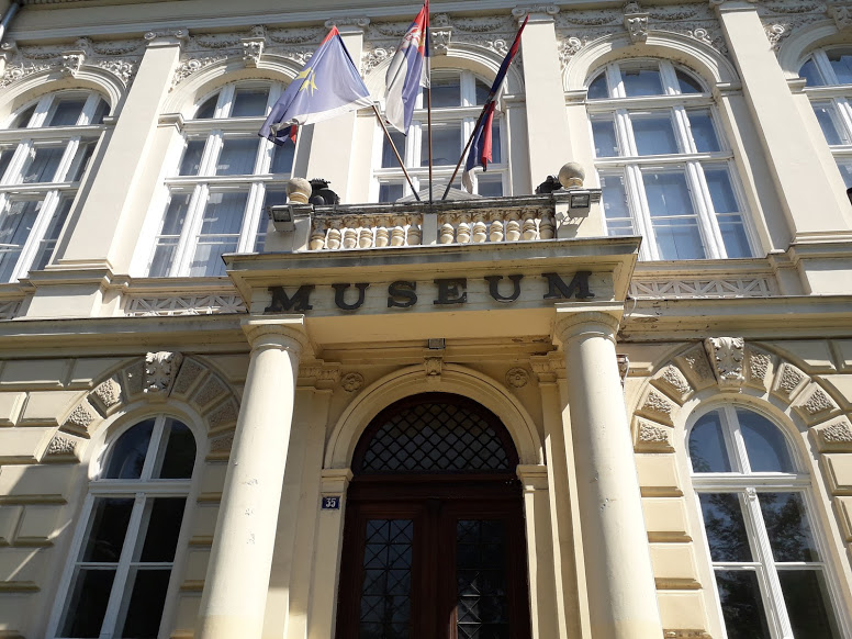 The Museum of Vojvodina is an art and natural history museum in Novi Sad, Serbia. Srpski (latinica): Muzej Vojvodine je pokrajinski muzej kompleksnog tipa koji prikuplja, obrađuje, čuva i prezentuje muzejsku građu sa teritorije Vojvodine.